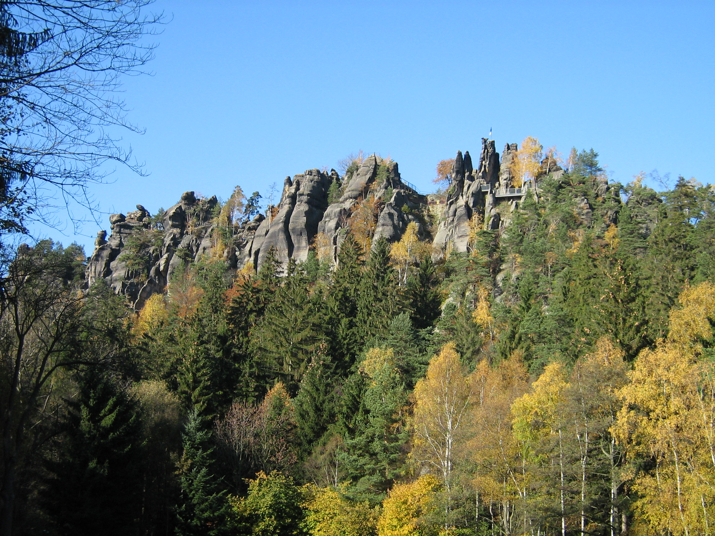 The rock Nonnenfelsen near the village Jonsdorf in the Lusatian mountains.